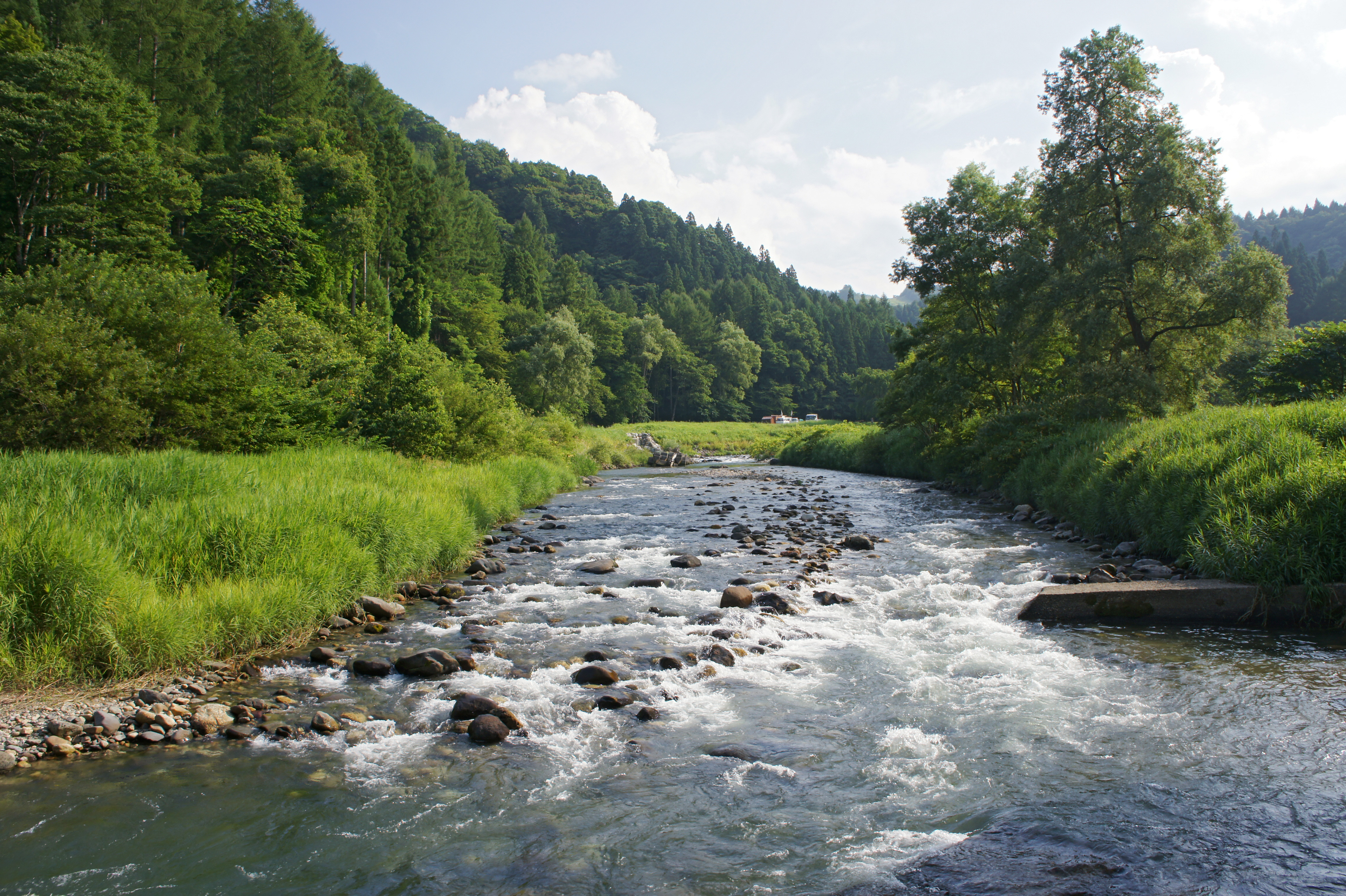 Himekawa River at Oide, Hakuba, Nagano prefecture, Japan.